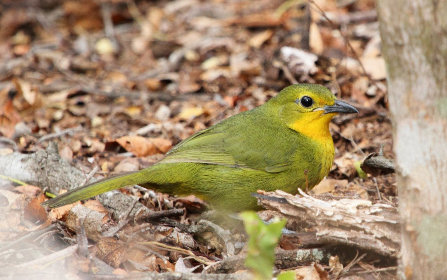 Immature Gorgeous Bush-Shrike, Telophorus viridis quadricolor. Mkhuze Game Reserve, KwaZulu-Natal.